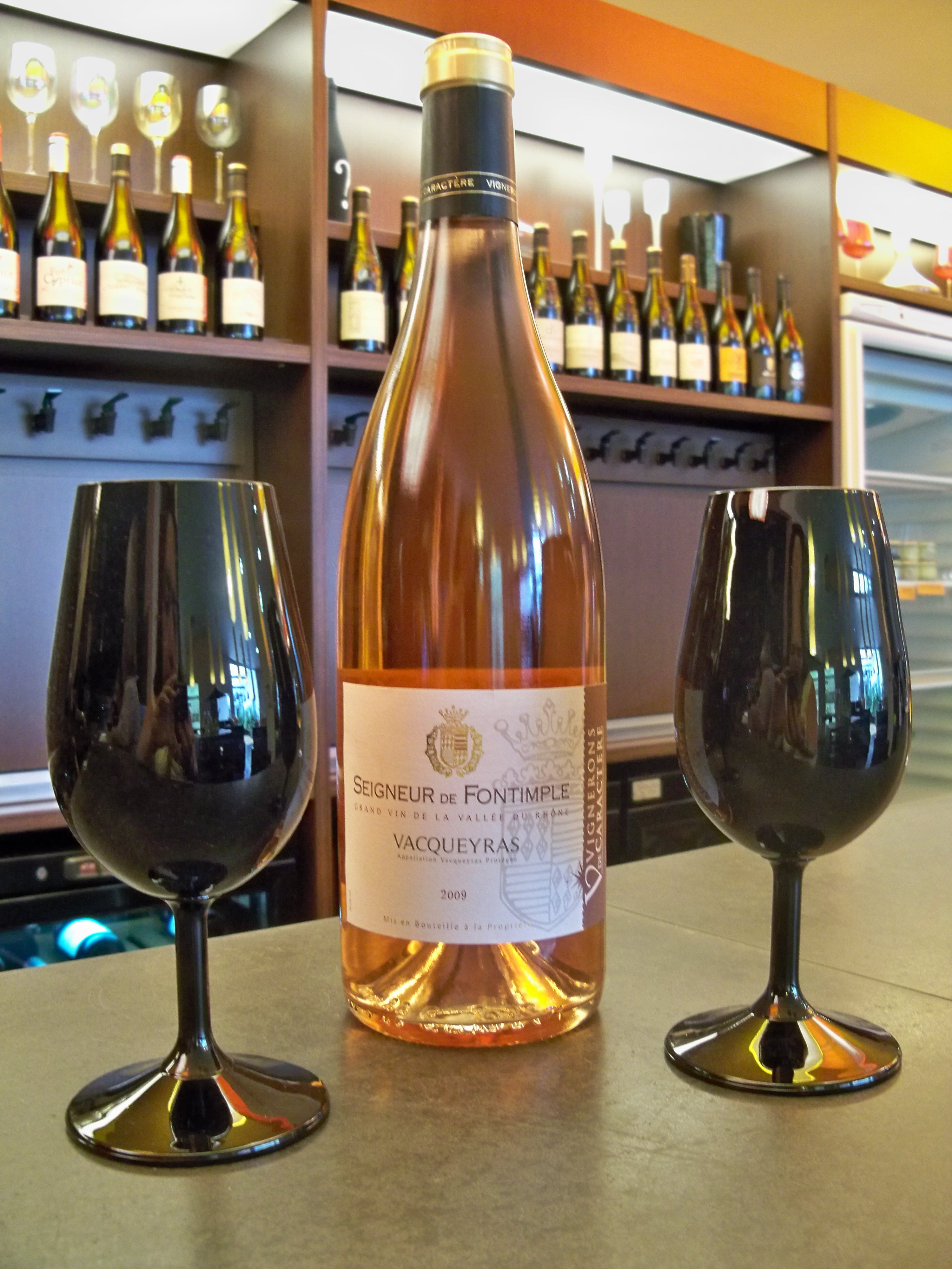 Black glasses fo wine tasting